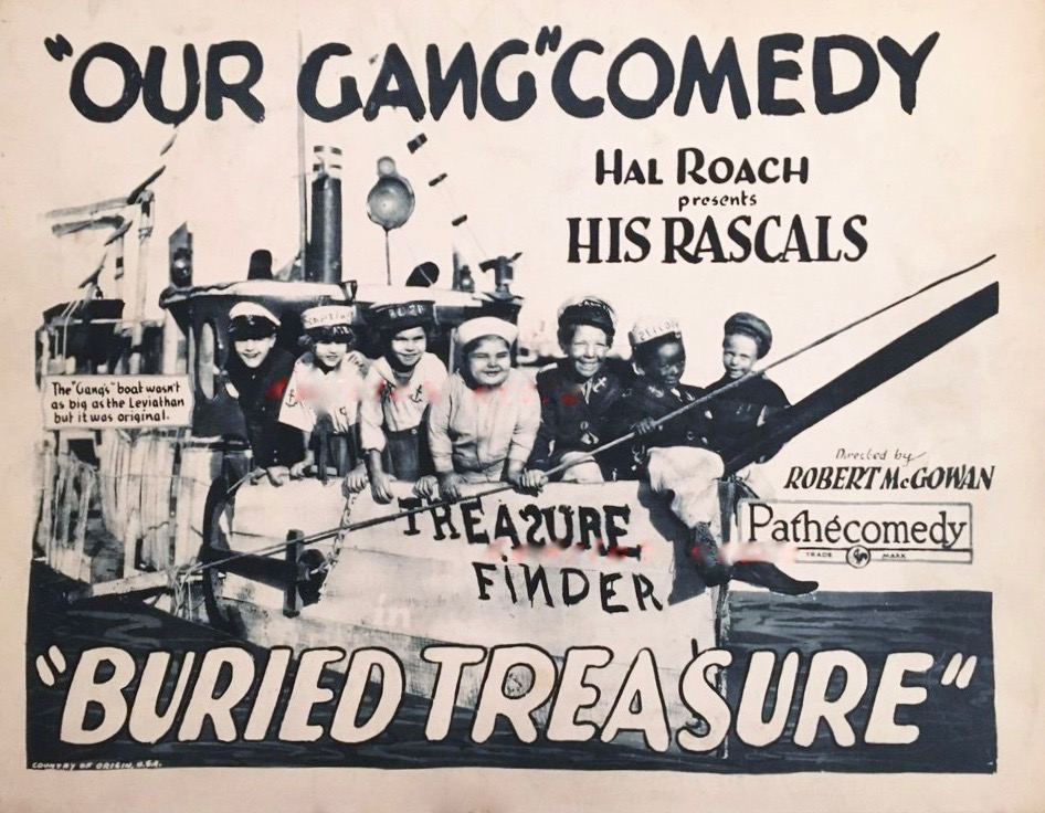 Lobby card for the 1926 film Buried Treasure. There are no copyright marks as can be seen at the links. At bottom left is Country of origin USA. At bottom right is Wyanoak, NYC-they printed the card.